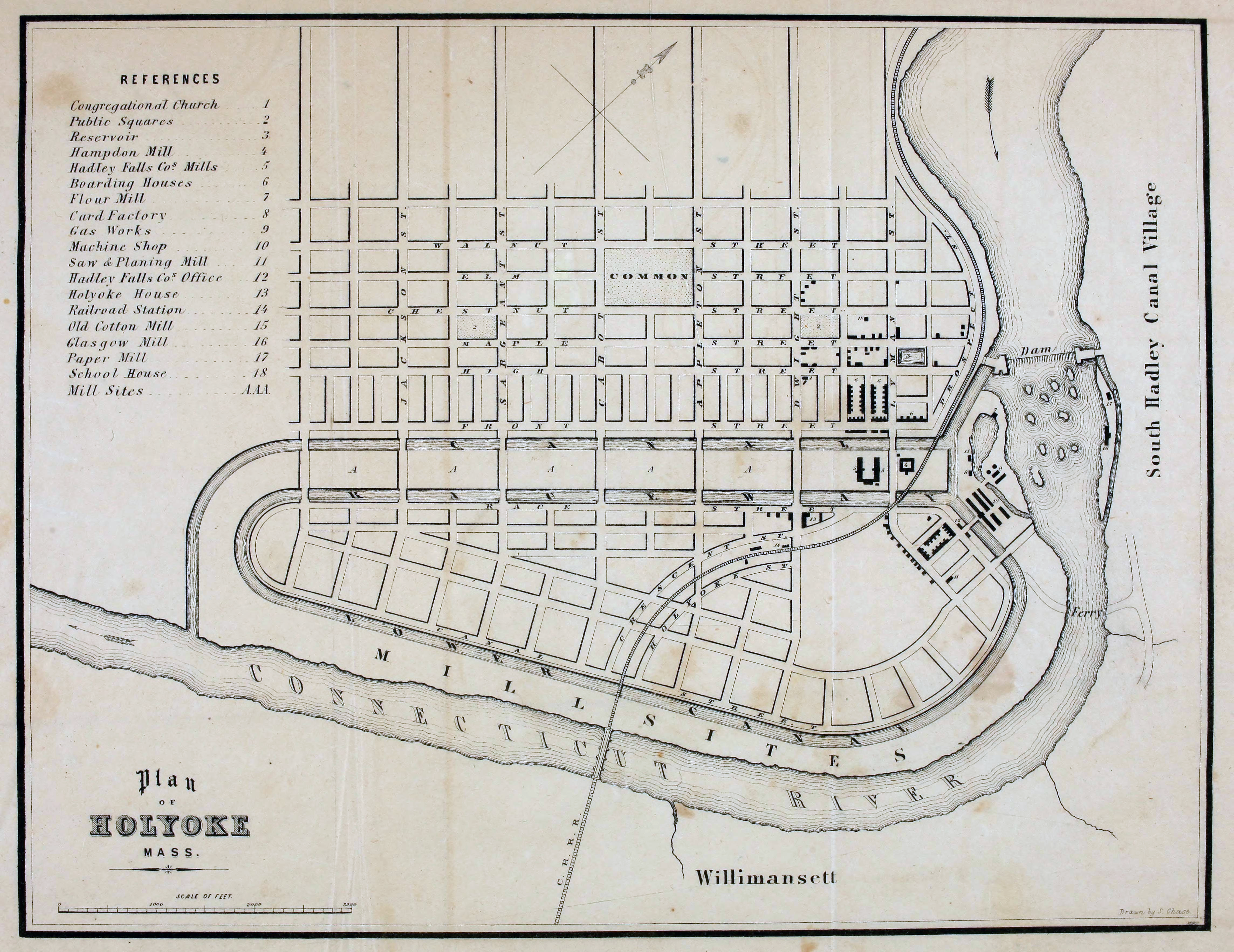 The original grid plan for the downtown area of the City of Holyoke, when it was a planned industrial community of the Hadley Falls Company, under the patronage of the Boston Associates.